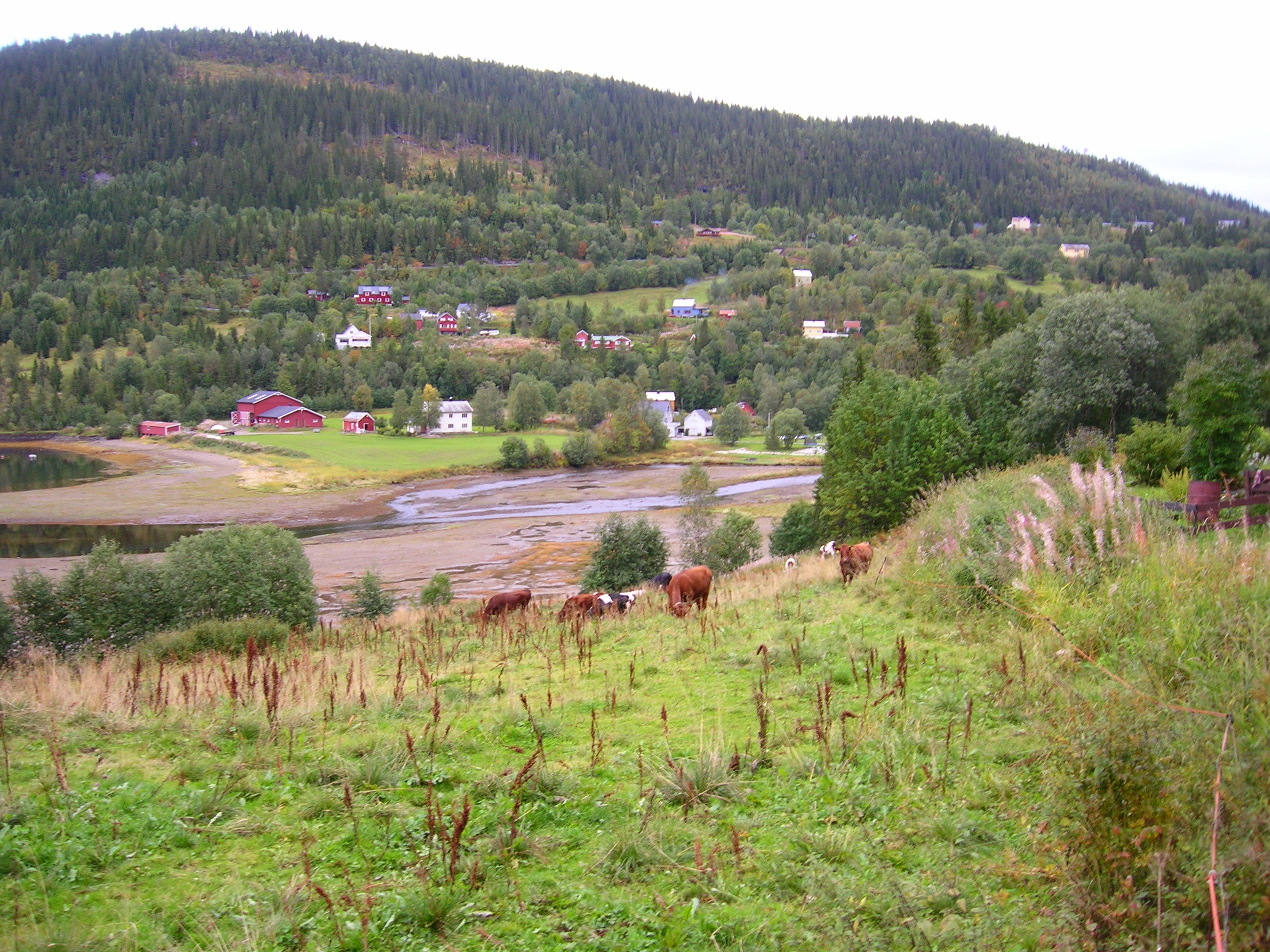 Elsfjord in Vefsn municipality, Nordland, Norway, Photo September 9, 2007 with a Nikon Coolpix 5600 5,1 Megapixel camera.